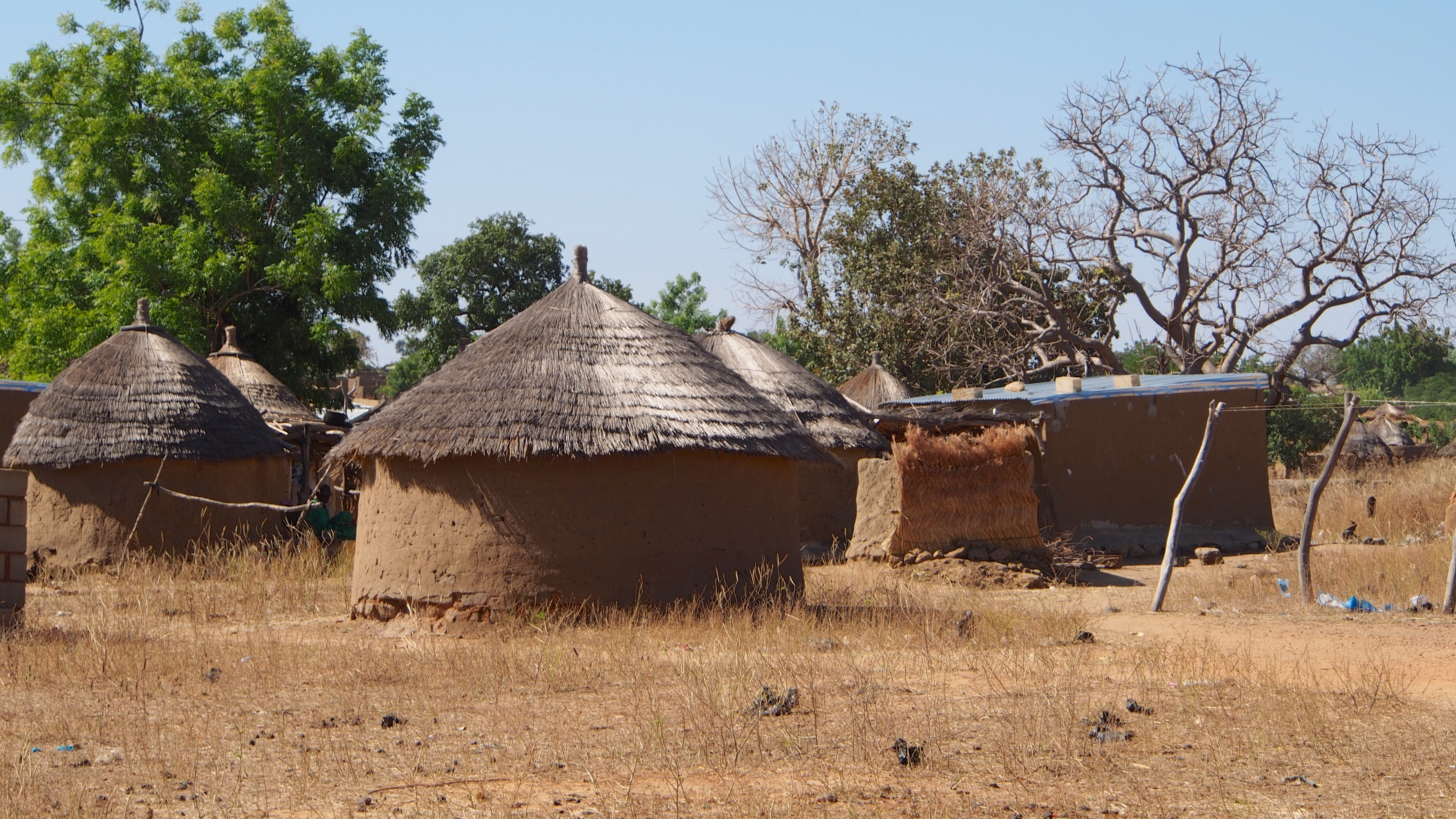 a traditional croft in Bittou, Burkina Faso